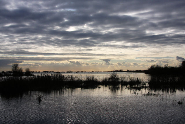 Ouse Washes at Welney Every Autumn the wide area between the New and Old Bedford Rivers is allowed to flood. The A1101, which crosses the area here at Welney, is often closed to traffic during the winter months. Here, in mid-November, the flood water is already lapping the road, from where this photo was taken.